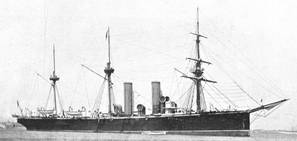 British second class cruiser HMS Leander, launched 1882